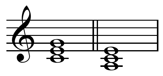 Relative tonic chords on C and a. Created by Hyacinth (talk) 06:45, 14 December 2010 using Sibelius 5. See also: Image:Tonic parallel in C major.png